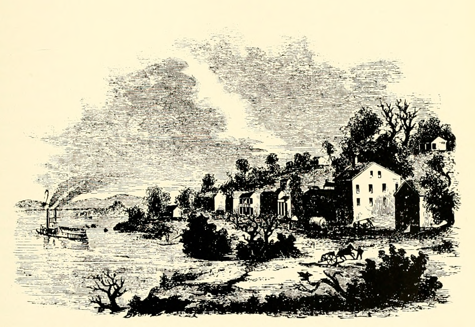 Kansas City in 1843, line drawing from Joseph Gaston's Centennial History of Oregon